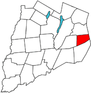 Otsego County outline map with Decatur in red.